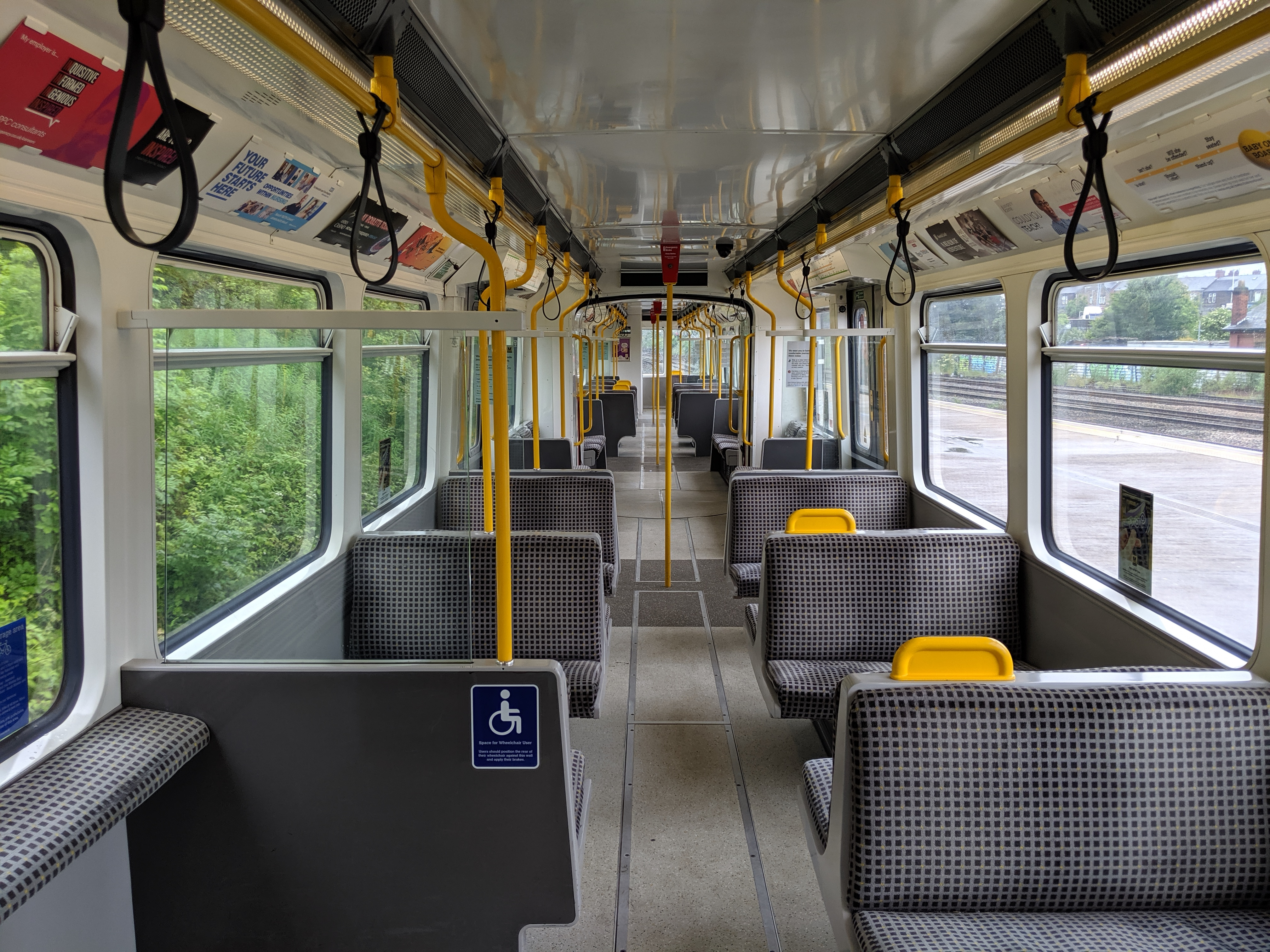 Interior of three-quarter life refurbished Tyne and Wear Metro Metrocar